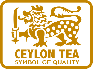 Ceylon Tea